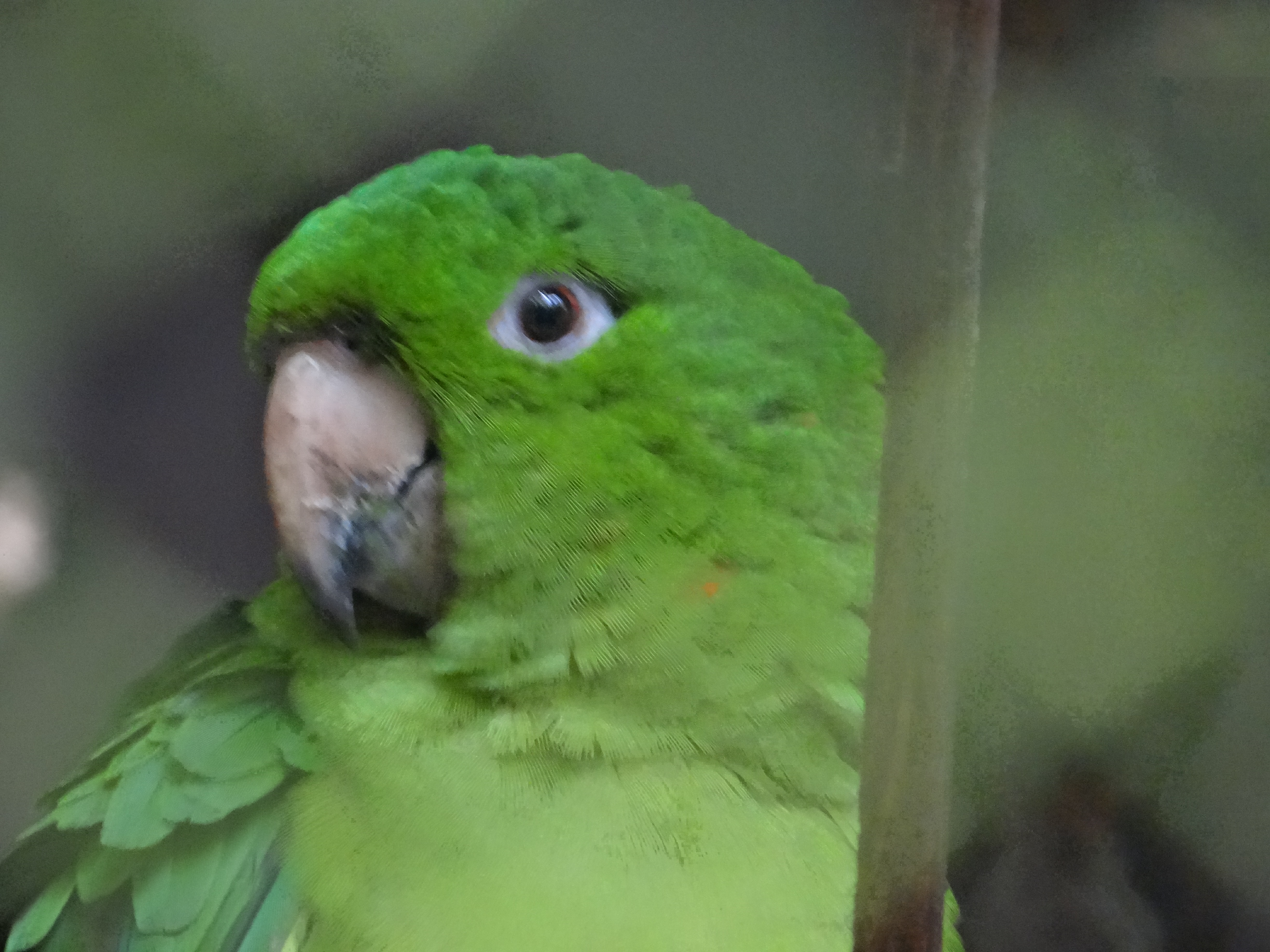 green parrot looking around